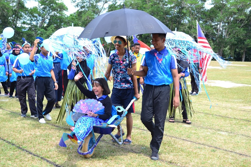 SUKAN 11